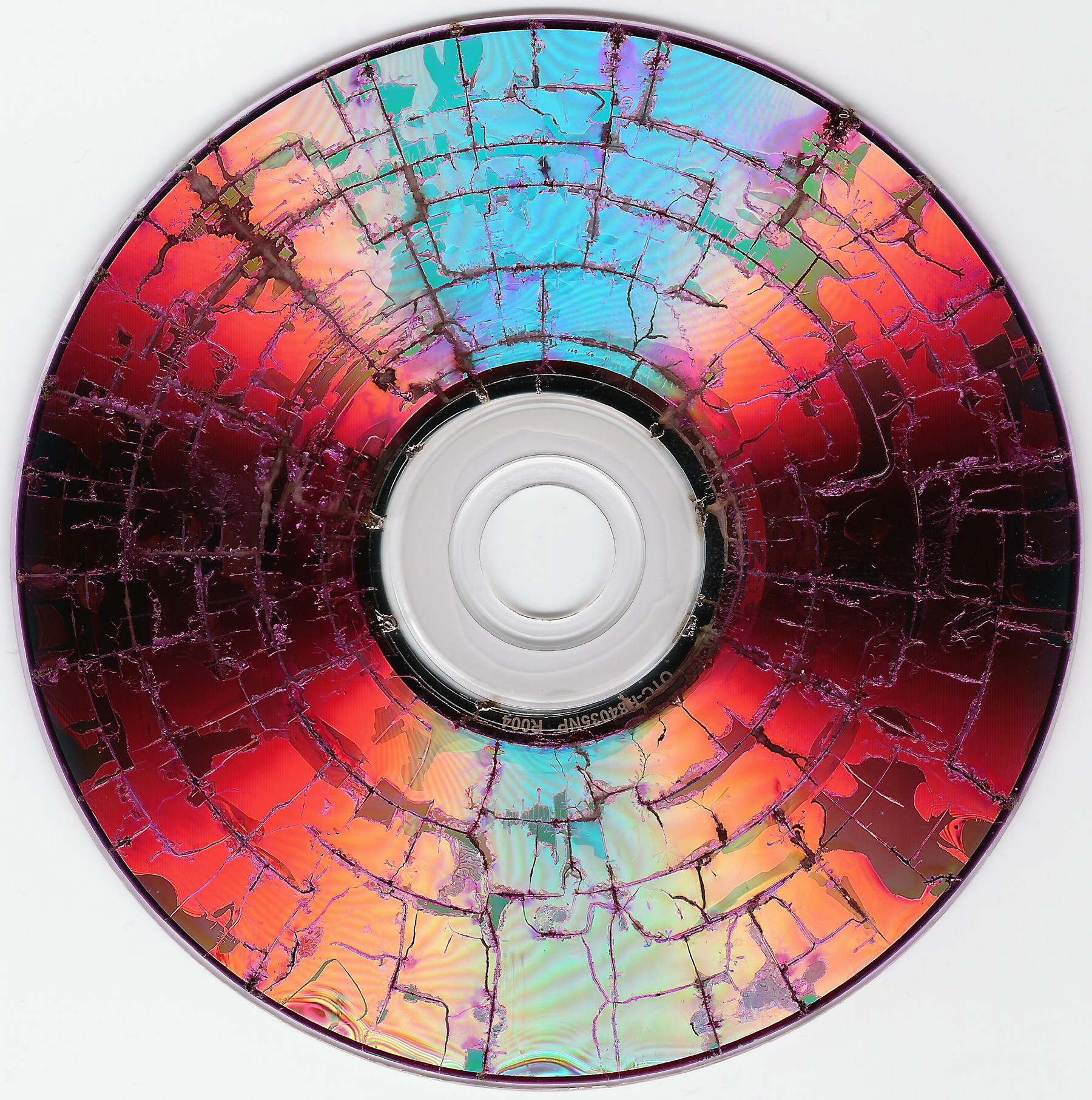 Fractal forms on the coverside of a microwaved DVD